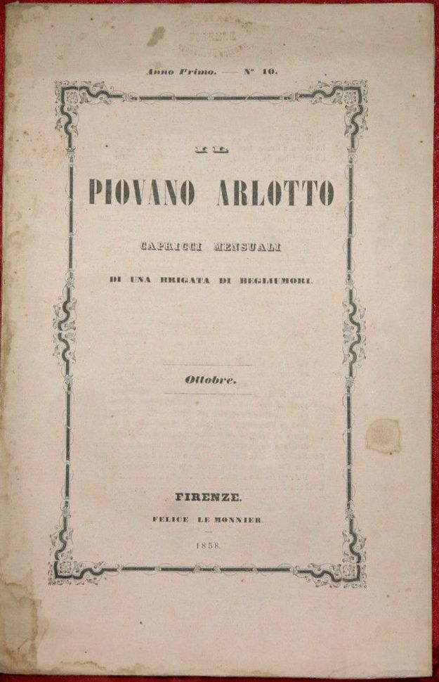 first page of satirical florentine magazine Il Piovano Arlotto, october 1858